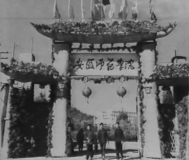 Gate of Anhui Normal College